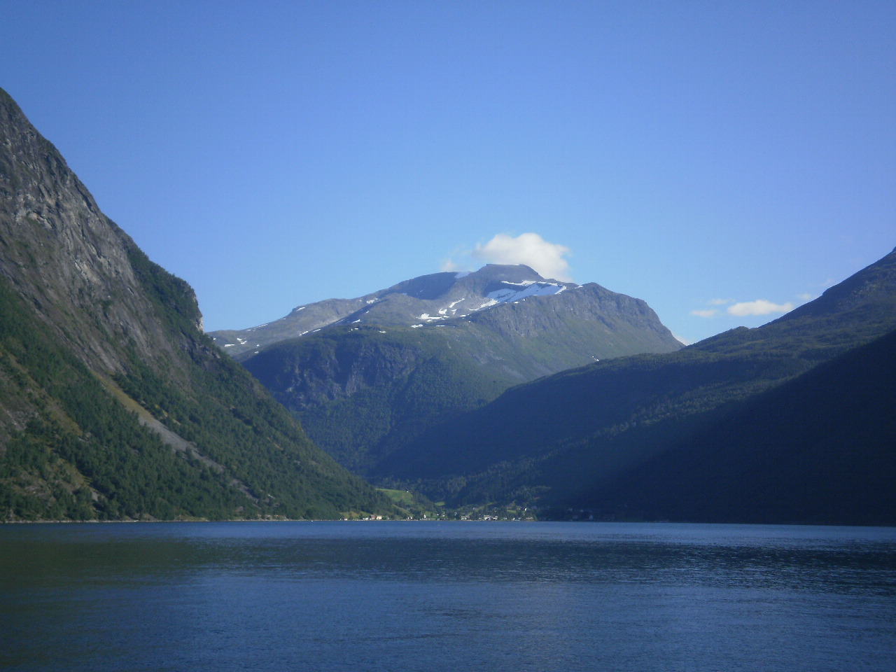 Mountains in Norway